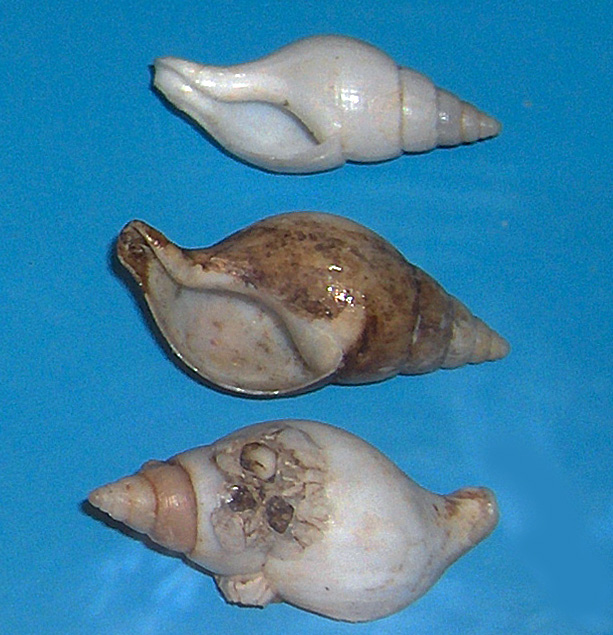 Colus jeffreysianus, a shell from the family Buccinidae